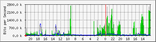 A graph produced by Multi Router Traffic Grapher (MRTG) on my home server.